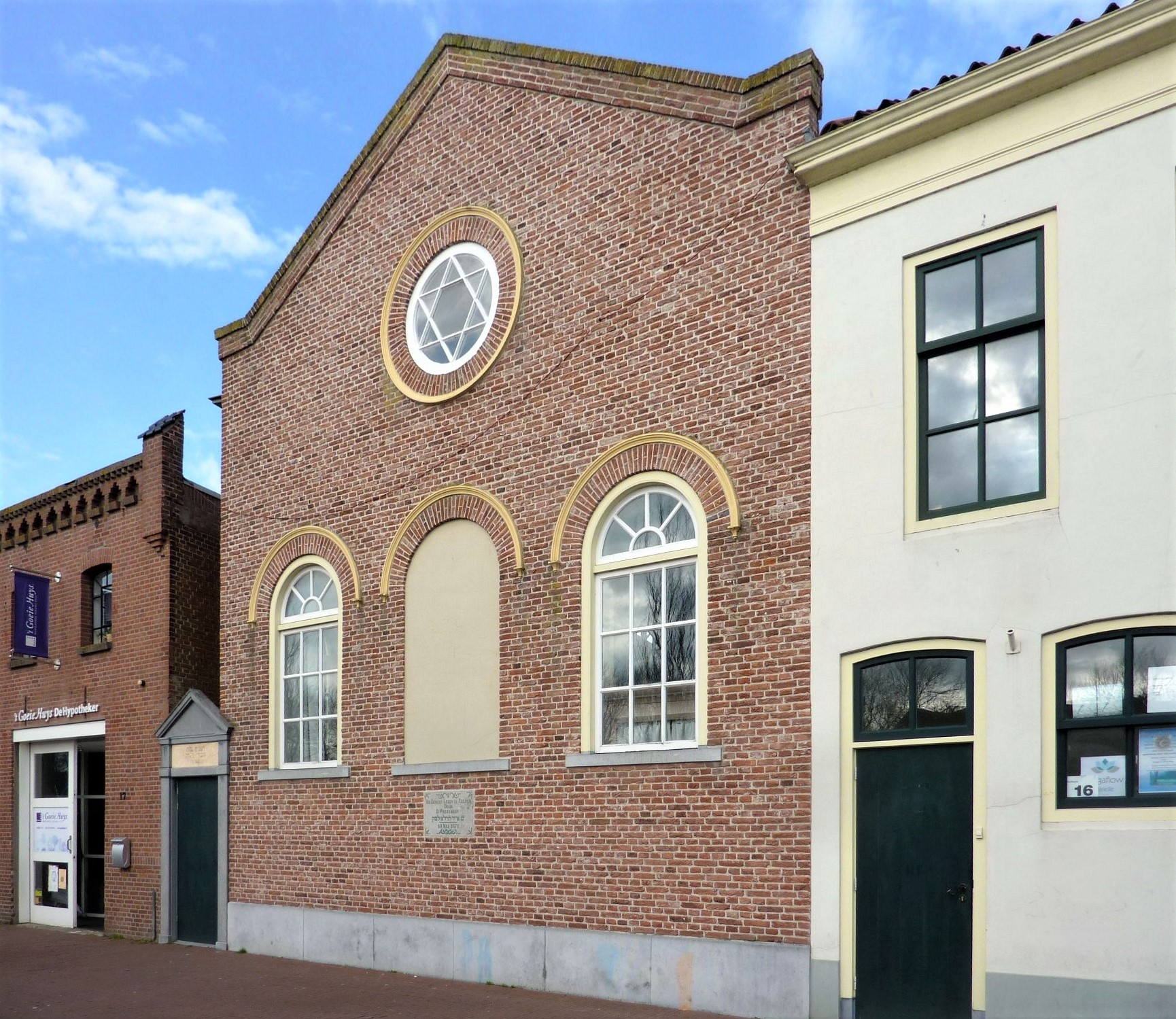 Synagogue (Brielle)